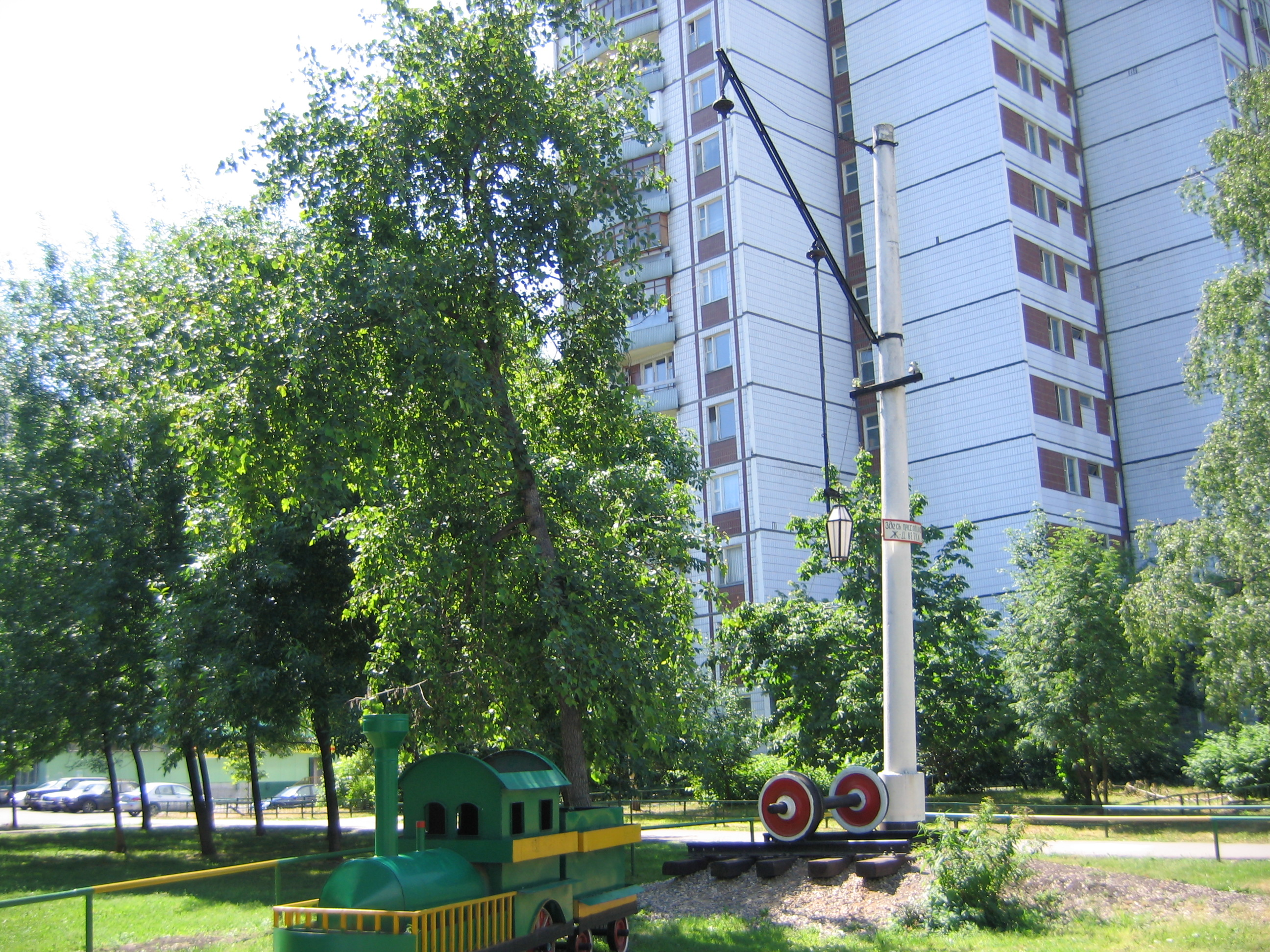 Memorial of abandoned Beskudnikovskaya railway in Moscow, Russia